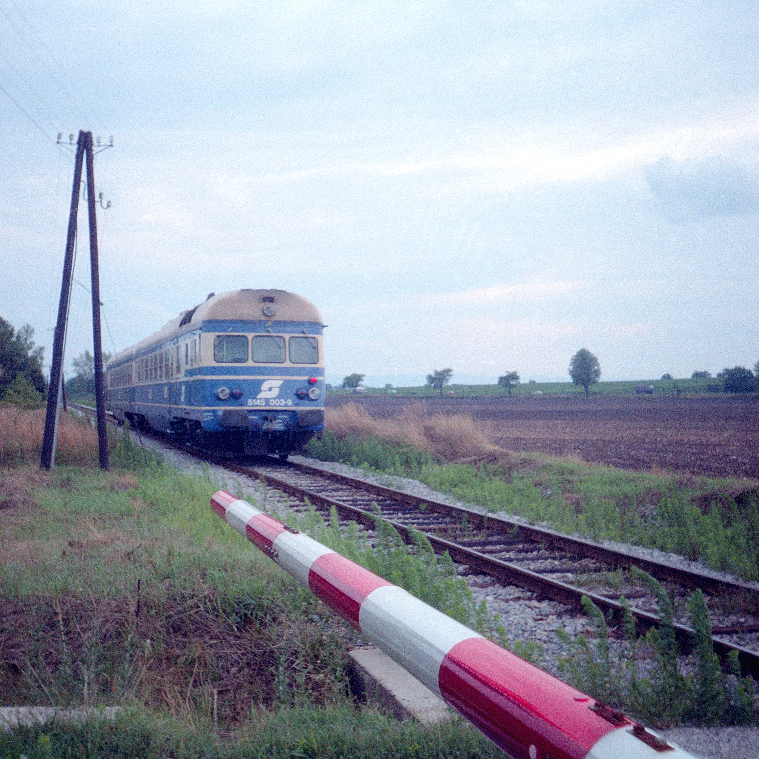 ÖBB 5145 003-9 leaving the 1988 closed Oggau halt heading for Neusiedl am See.